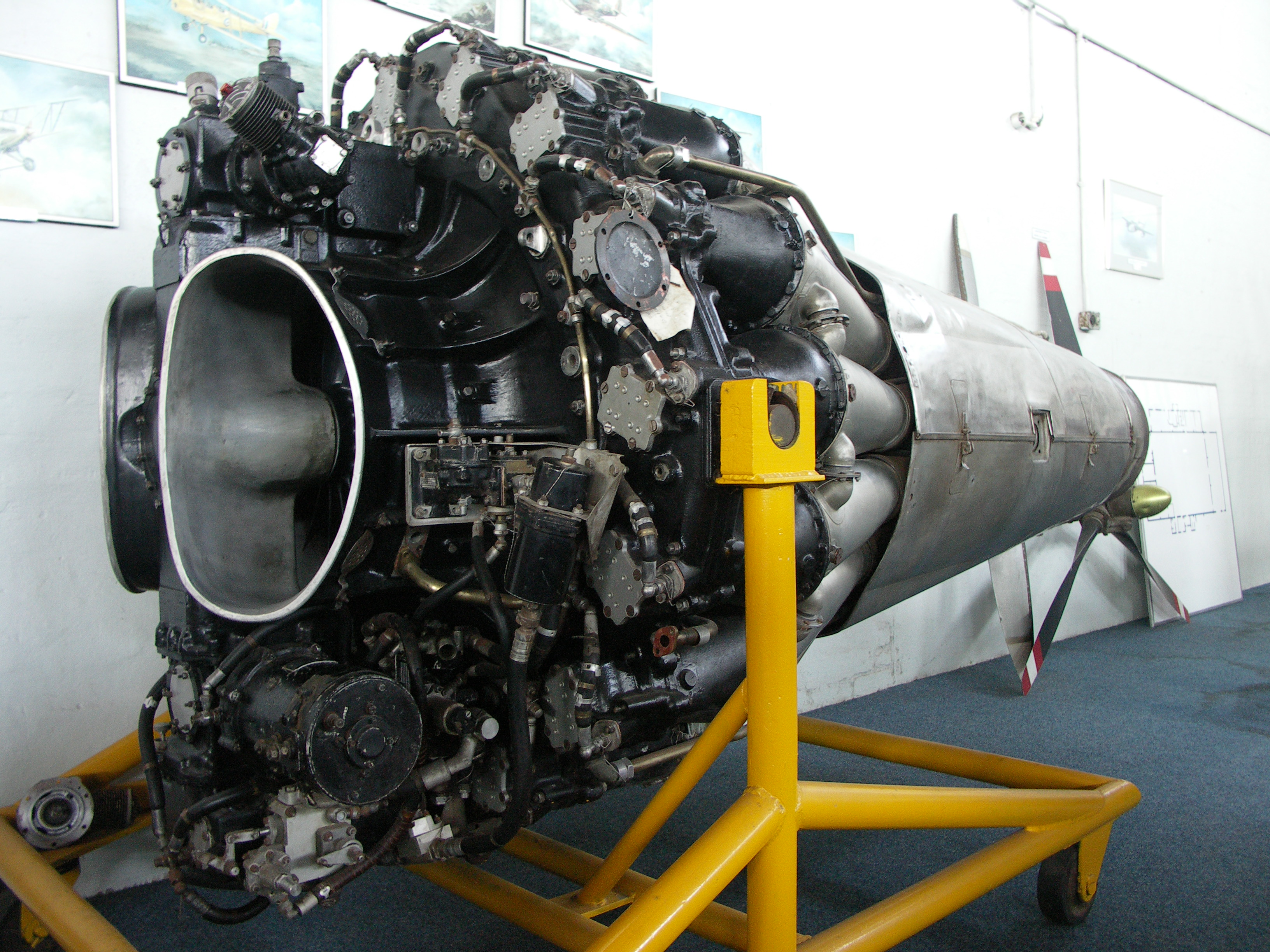 de Havilland Goblin turbo jet engine. Photo taken at the SAAF museum, Port Elizabeth, South Africa